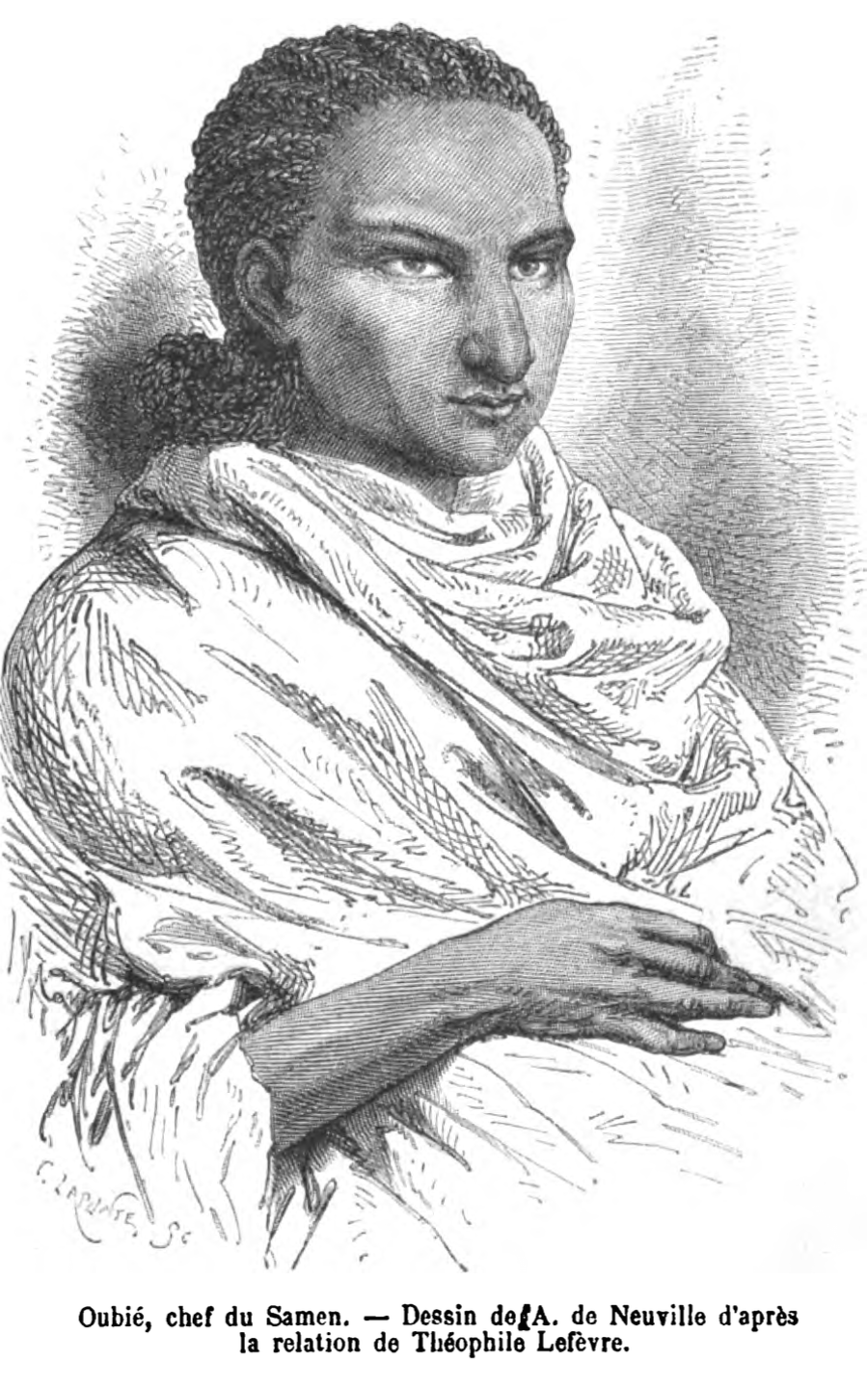 Taken from Le Tour Du Monde XX [Tour of the World 20], 1869. Ethiopian Lords and Nobles.